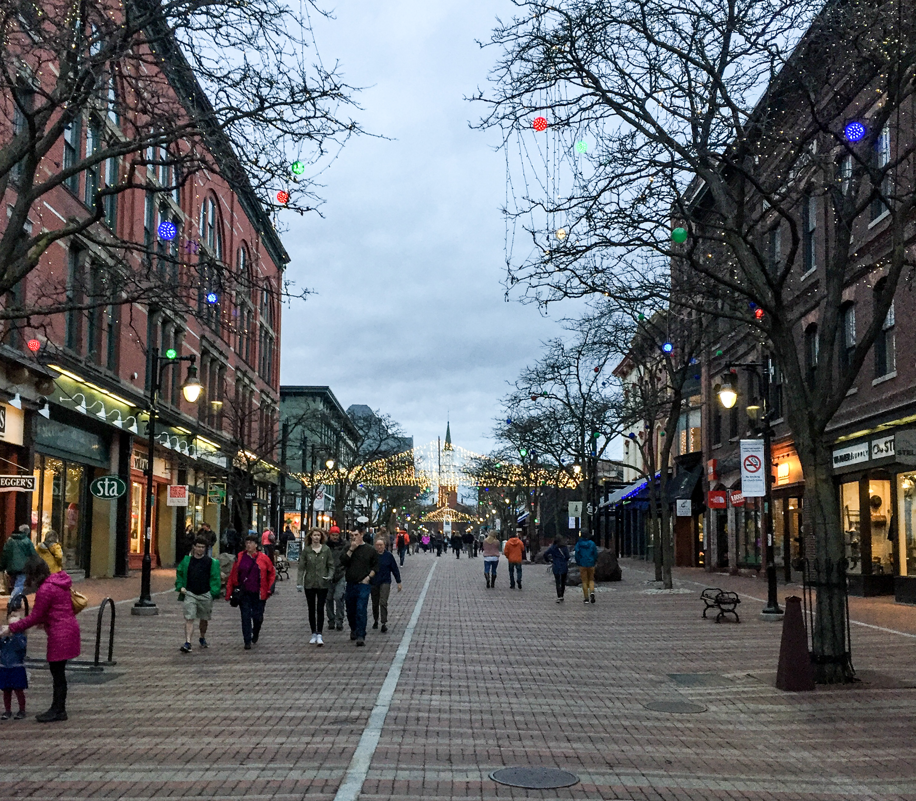 Church Street Marketplace (Burlington, Vermont) at dusk. Looking north from College Street.